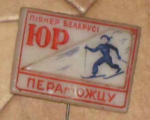 Badge of newspaper «Pioneer of Belarus» for rewarding of young sportsmen